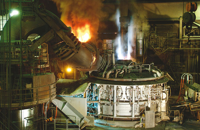 This picture shows the electric arc furnace, property of Georgsmarienhütte GmbH, which is located in the steel plant in Georgsmarienhütte, Germany.